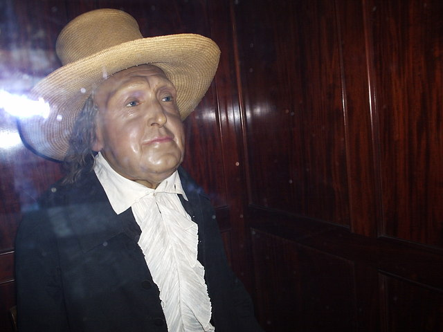 Jeremy Bentham embalmed. The ideas of the utilitarian philosopher Jeremy Bentham underpinned the establishment of University College London where his embalmed body can still be seen on public display in a glass case. In actual fact his head is a wax replica, the original having gone horribly wrong in the embalming process.